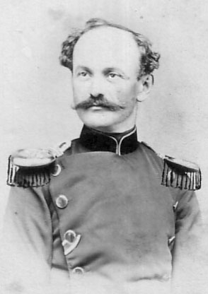 Alexander Ruestow (the soldier) October 13, 1824 – July 25, 1866)